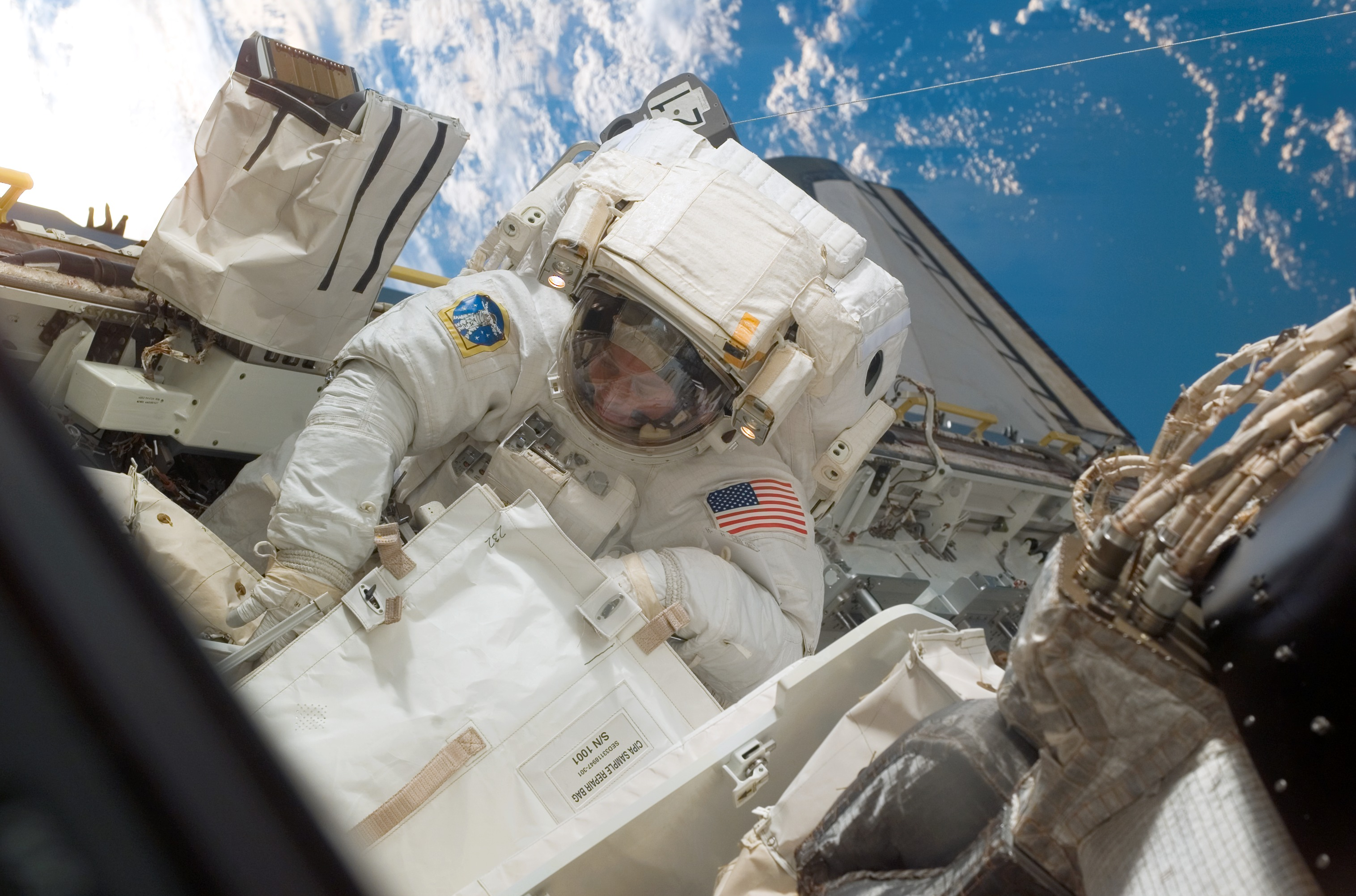 Astronaut Robert L. Behnken, STS-123 mission specialist, participates in the mission's fourth scheduled session of extravehicular activity (EVA) as construction and maintenance continue on the International Space Station. During the 6-hour, 24-minute spacewalk, Behnken and astronaut Mike Foreman (out of frame), mission specialist, replaced a failed Remote Power Control Module -- essentially a circuit breaker -- on the station's truss. The spacewalkers also tested a repair method for damaged heat resistant tiles on the space shuttle. This technique used a caulk-gun-like tool named the Tile Repair Ablator Dispenser to dispense a material called Shuttle Tile Ablator-54 into purposely damaged heat shield tiles. The sample tiles will be returned to Earth to undergo extensive testing on the ground.